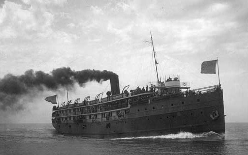 S.S. Puritan (George M. Cox) (cropped)